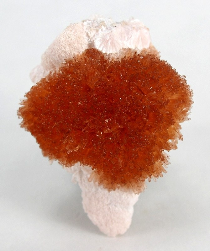 Prehnite Locality: N'Chwaning II Mine, N'Chwaning Mines, Kuruman, Kalahari manganese fields, Northern Cape Province, South Africa (Locality at ) A red-orange prehnite cluster composed of very fine, tapered, pseudo-acicular crystals jus tleaping off a natural pedestal of xonotlite matrix. In person this has a slightly more orange tint. However, I admit it coul dbe mistaken for inesite from Wessels. It IS prehnite, though...that is what is so interesting about this find! 3.5 x 2.6 x 2.5 cm